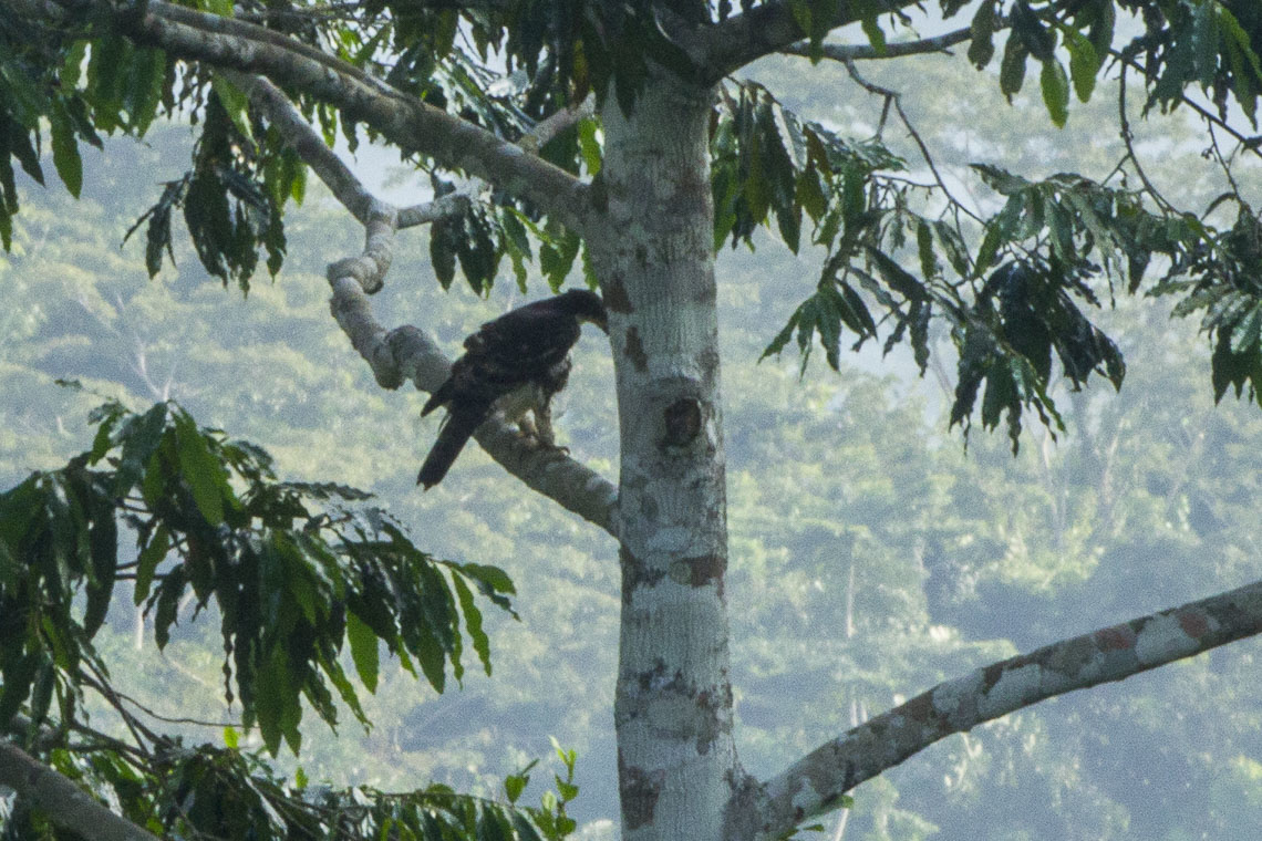 Cassin's Hawk-Eagle - Ghana_S4E1600